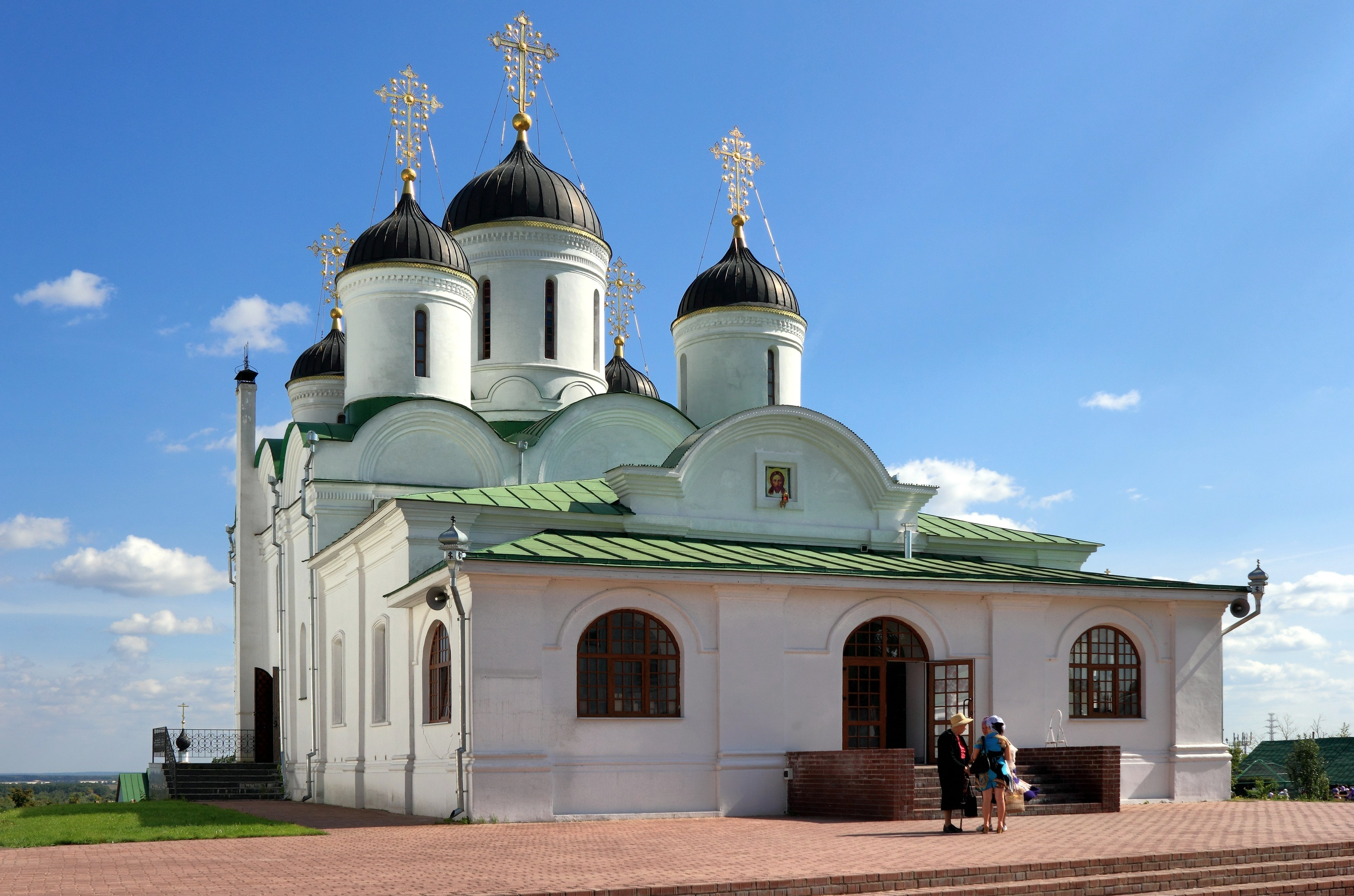 Murom. Transfiguration monastery. Transfiguration Cathedral